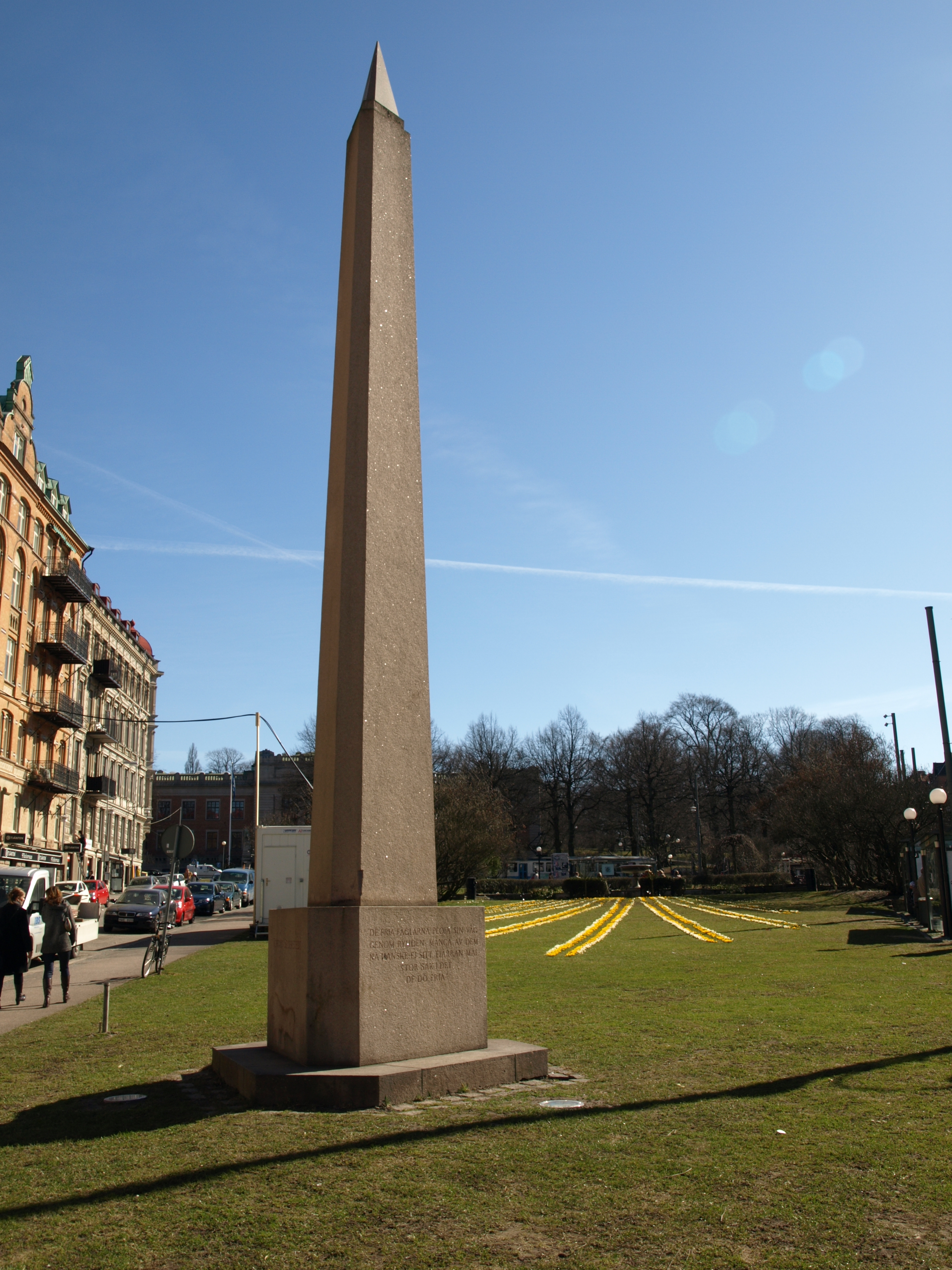 "The Torgny Segerstedt monument", in the Vasa park, Gothenburg, Sweden